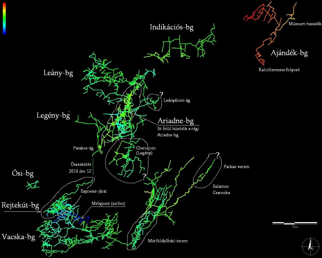 The Csévi-szirt-s caves in poligon map